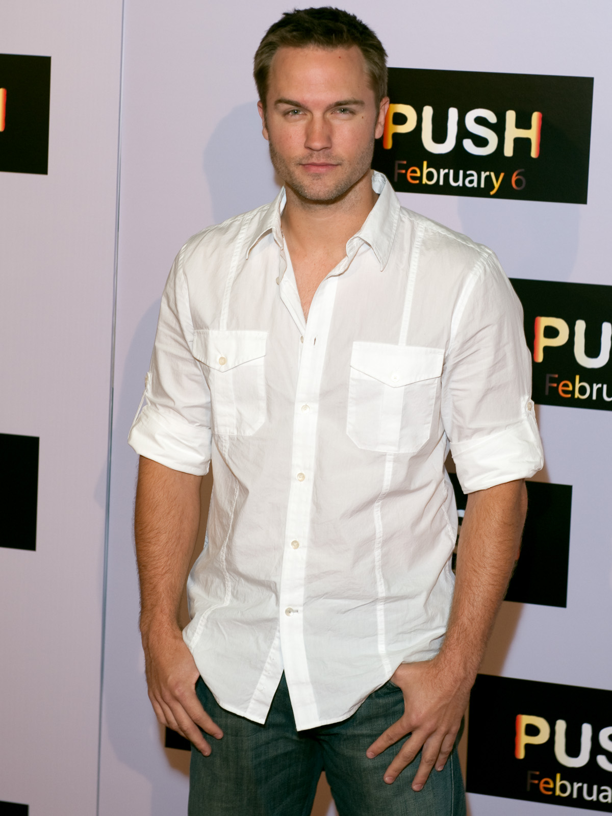 American actor Scott Porter arrives at the premiere of Push, Mann Theater, Westwood.